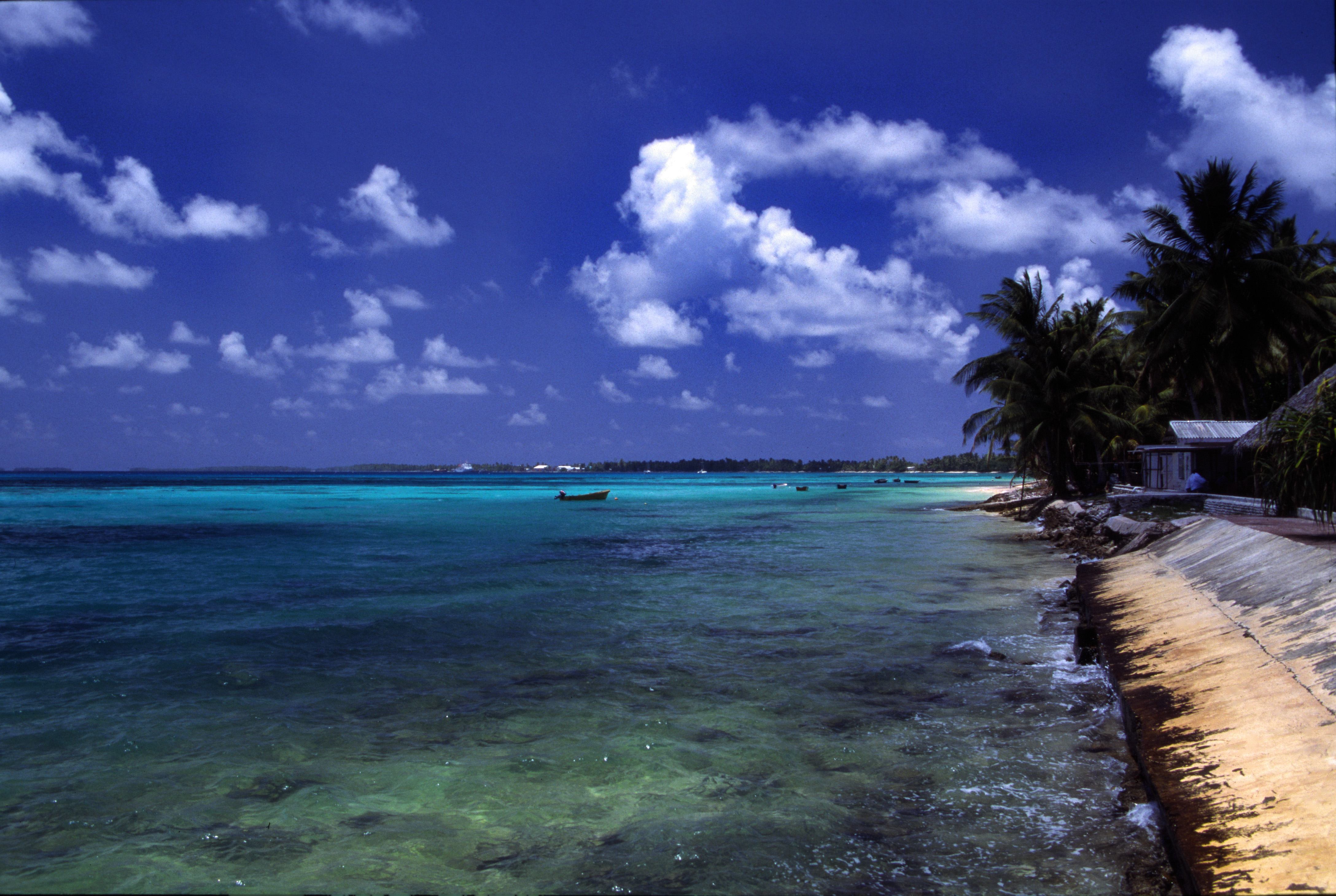 A beach at Funafuti atoll, Tuvalu, on a sunny day.